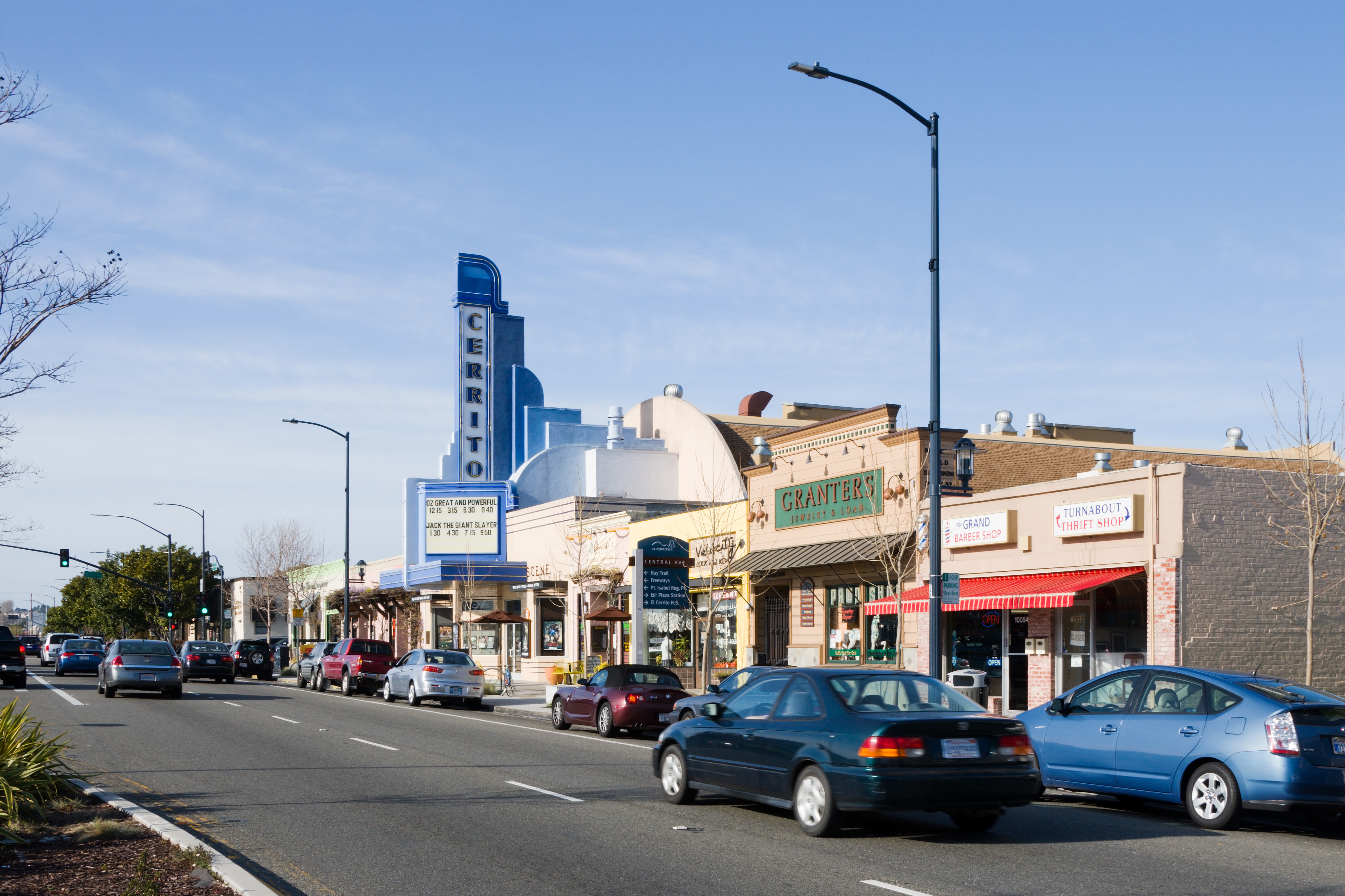 San Pablo Avenue with the historic Cerrito Theater, El Cerrito, California